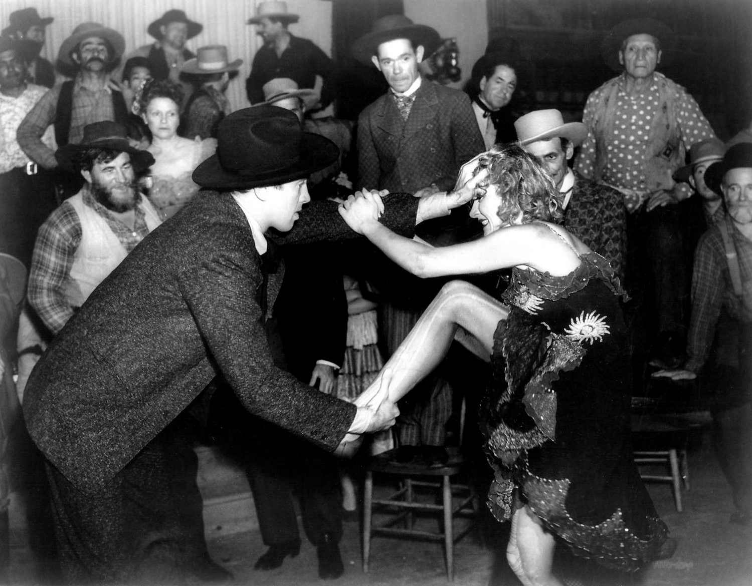 Promotional still from the 1939 film, Destry Rides Again